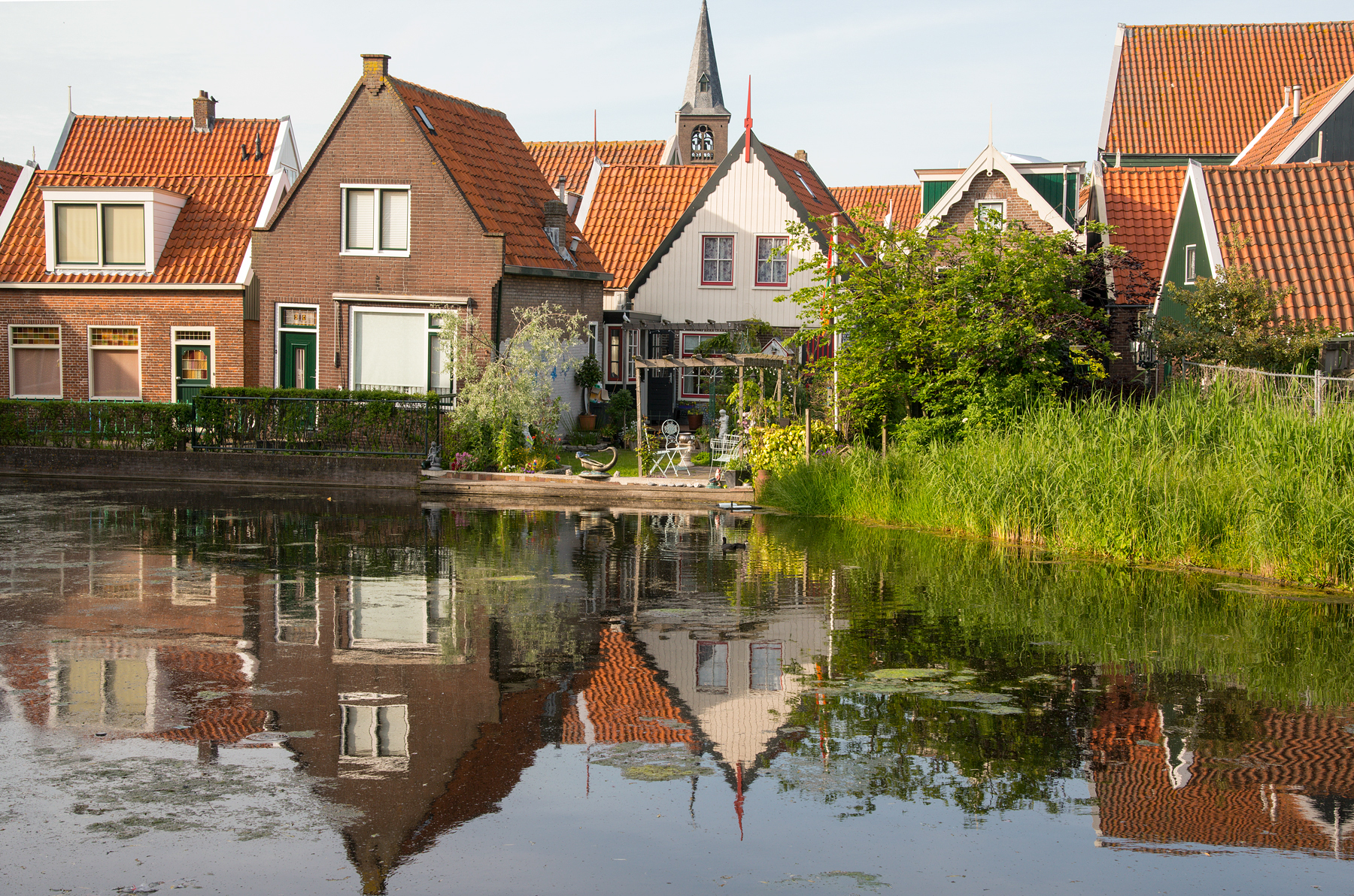 A residential area in Volendam